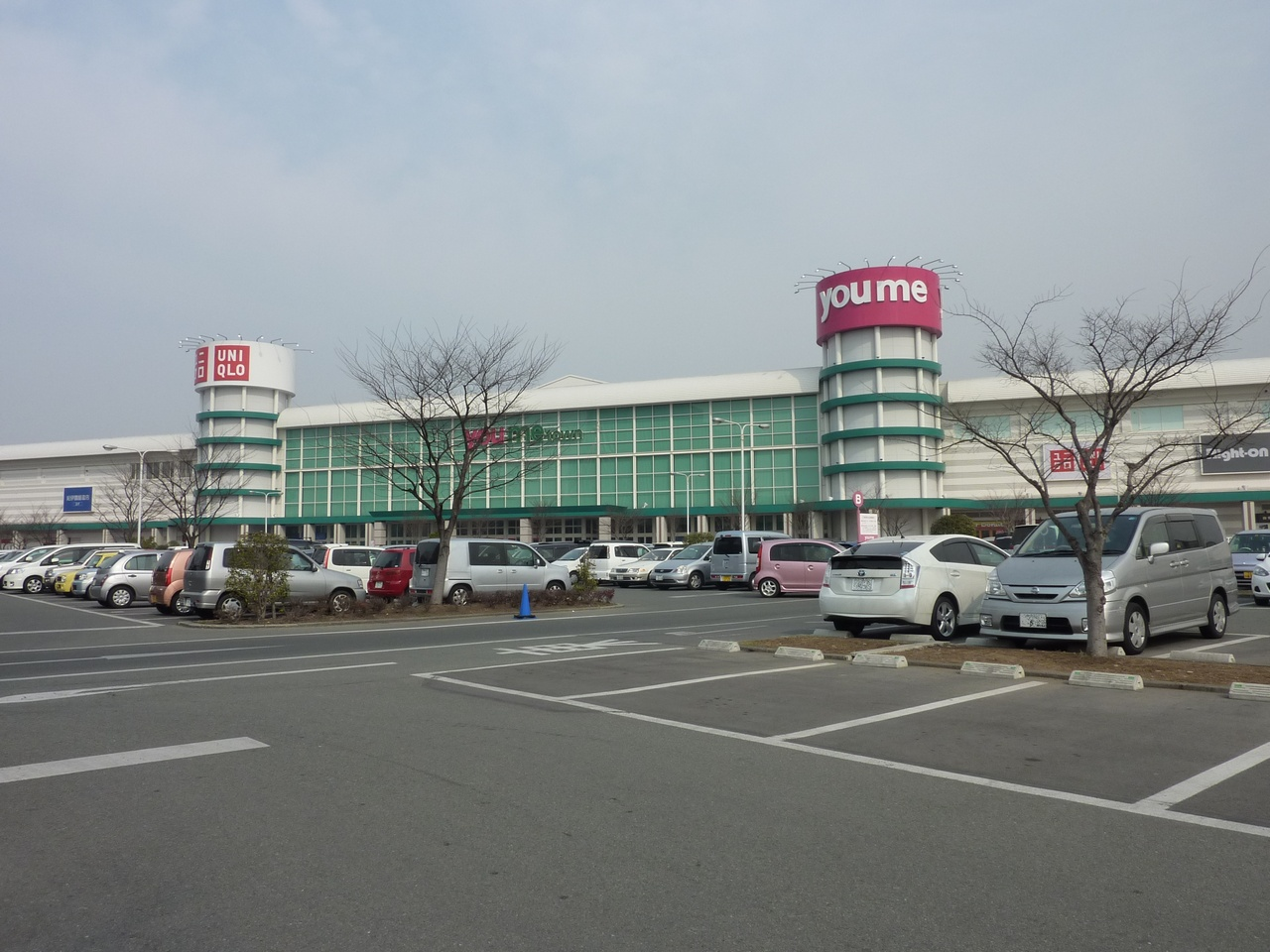 You me Town Hamasen Shopping Center (Minami-ku, Kumamoto City, Japan)